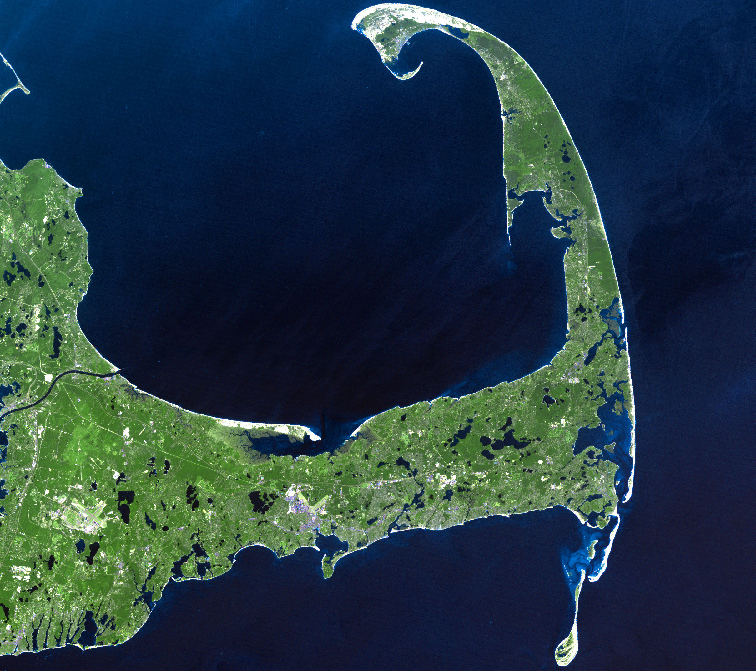 In easternmost Massachusetts, Cape Cod juts dramatically out into the Atlantic Ocean. The 65-mile peninsula has Cape Cod Bay to its north, the Nantucket Sound to its south and the Atlantic Ocean to its east. It is the world’s largest glacially formed peninsula; a remnant landscape left by the retreating Laurentide Ice Sheet. The outer shore of the cape, from Long Point to south of Pleasant Bay, was designated as the Cape Cod National Seashore in August of 1961. The National Seashore encompasses over 44,000 acres of land, which includes marine, estuarine, and freshwater ecosystems. This Landsat 7 image was acquired on June 22, 2002. The pseudo-natural colour image, is a composite of ETM+ bands 7, 5, and 3. Cape Cod is found on Landsat WRS-2 Path 11 Row 31.